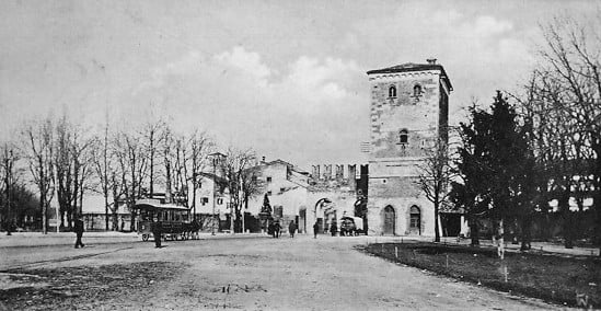 Porta Aquileia 1900-1908, udine